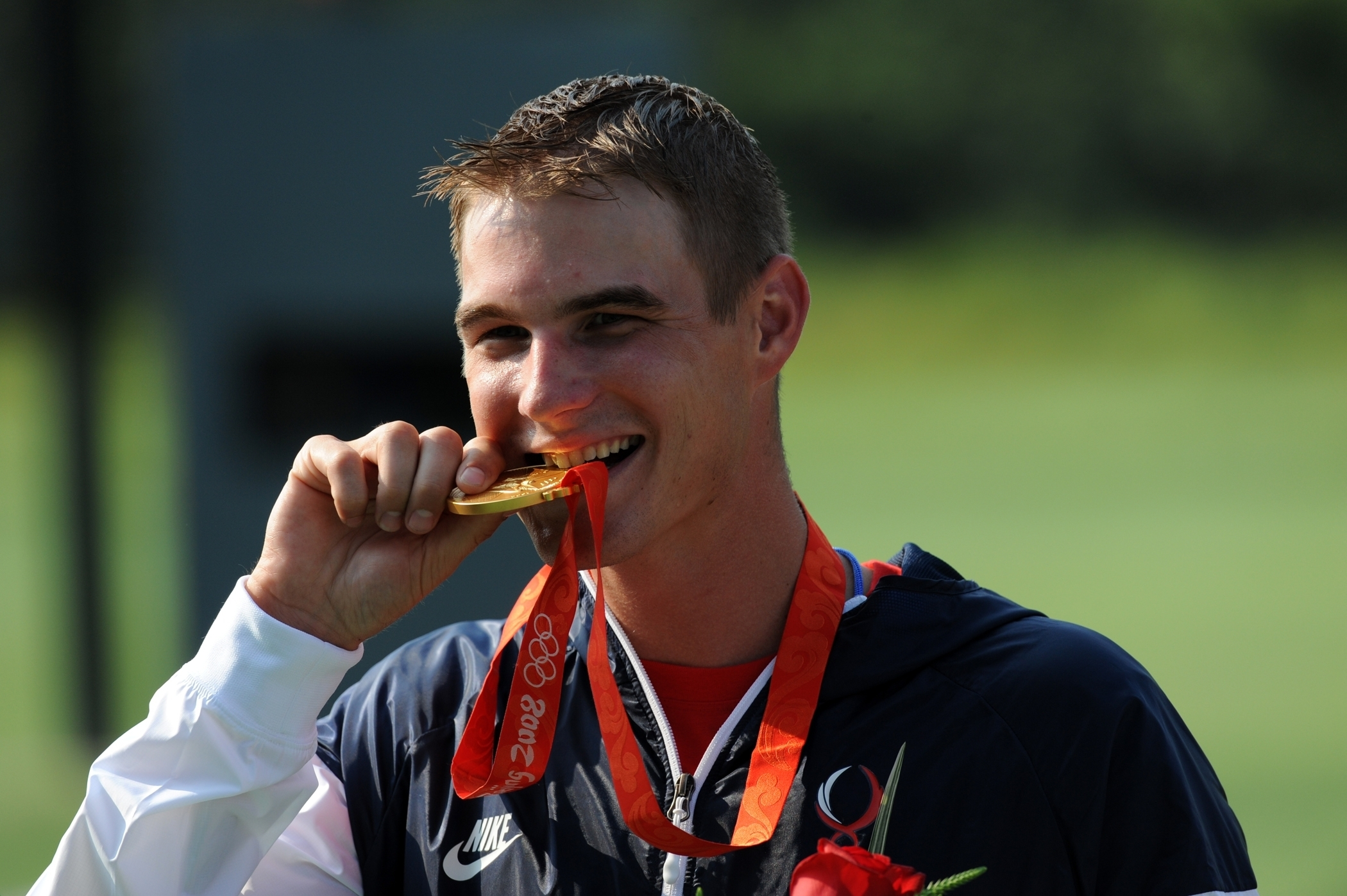 Spc. Walton Glenn Eller III of the U.S. Army Marksmanship Unit at Fort Benning, Ga., bites his Olympic gold medal after winning the double trap event August 12th at the Beijing Shooting Range.